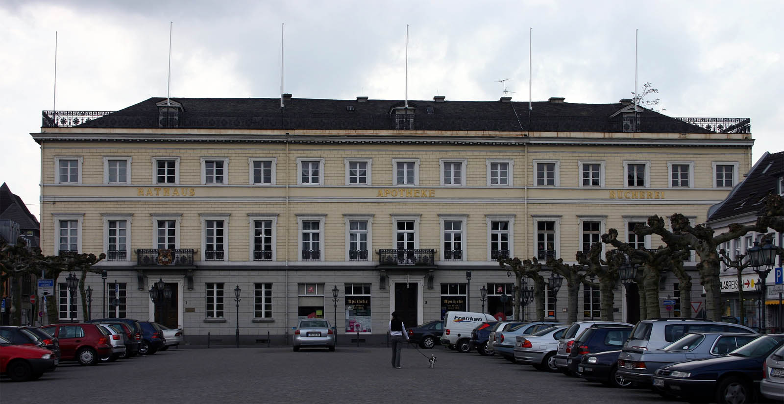 Krefeld: city hall of the former city of Uerdingen This image shows a heritage building in Germany, located in the North Rhine-Westphalian city Krefeld (no. 501/502/20).